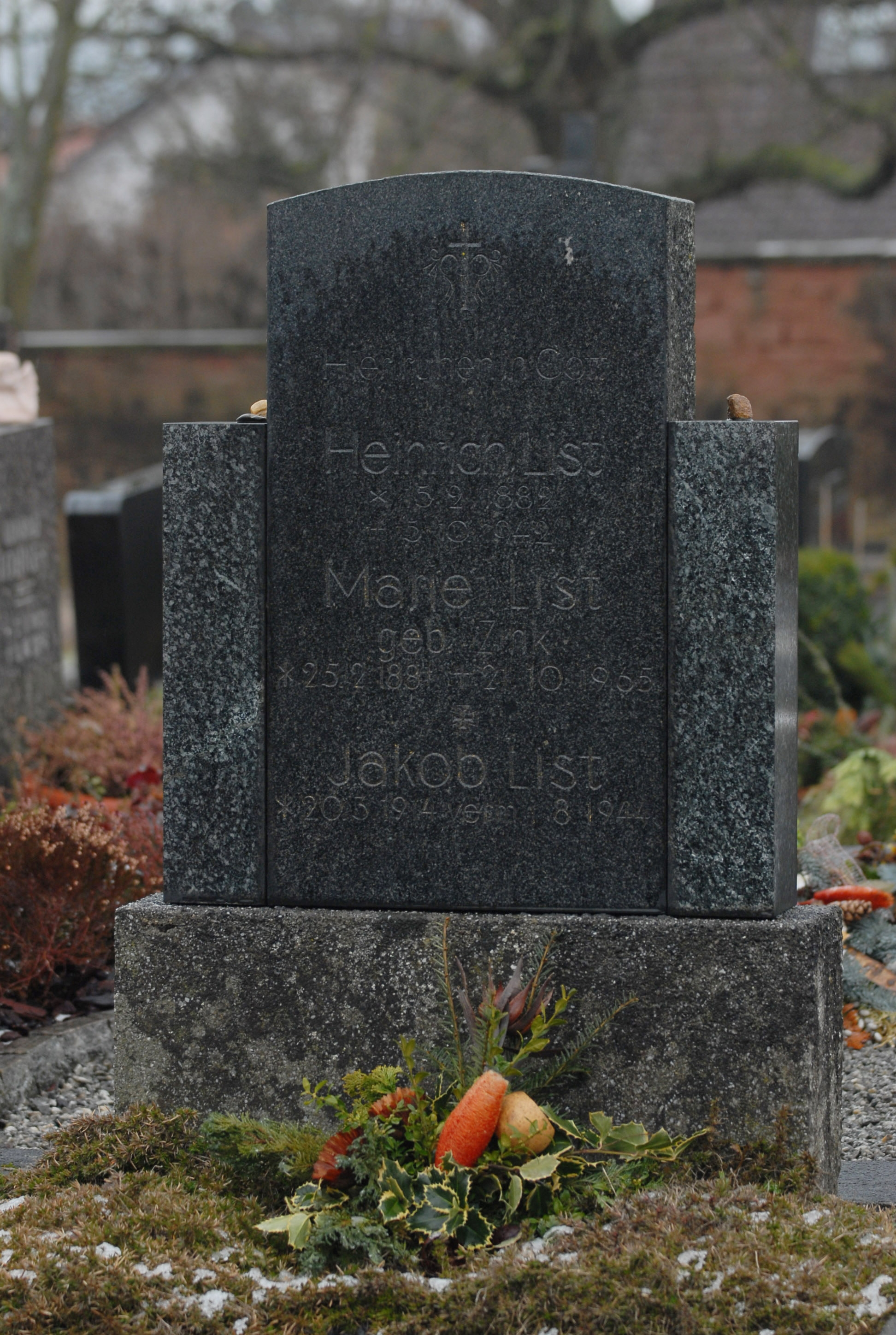 Tombstone of Heinrich und Marie List, Righteous among the Nations